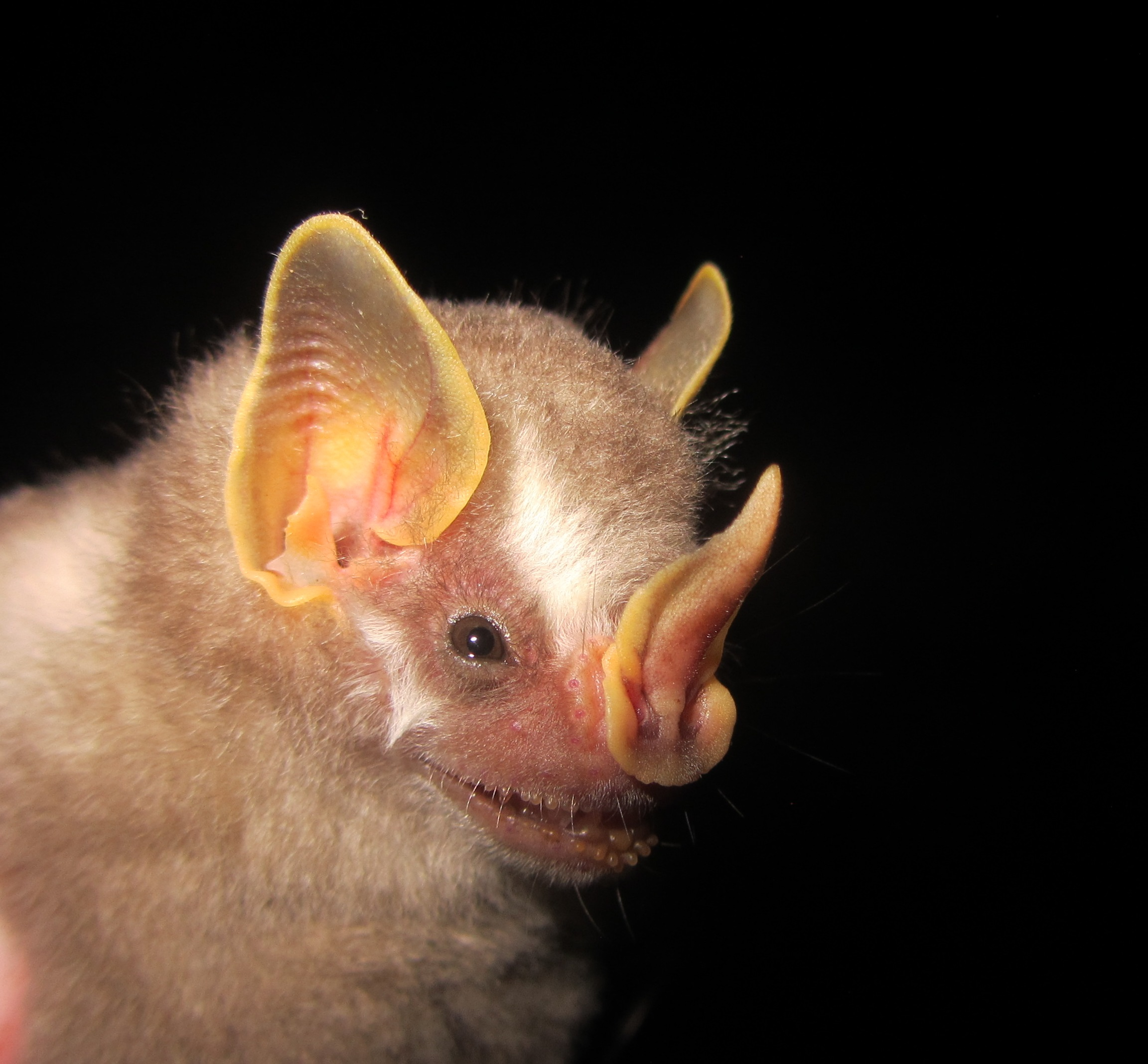 Dermanura sp. captured in Santana do Araguaia, Brazilian state of Pará.